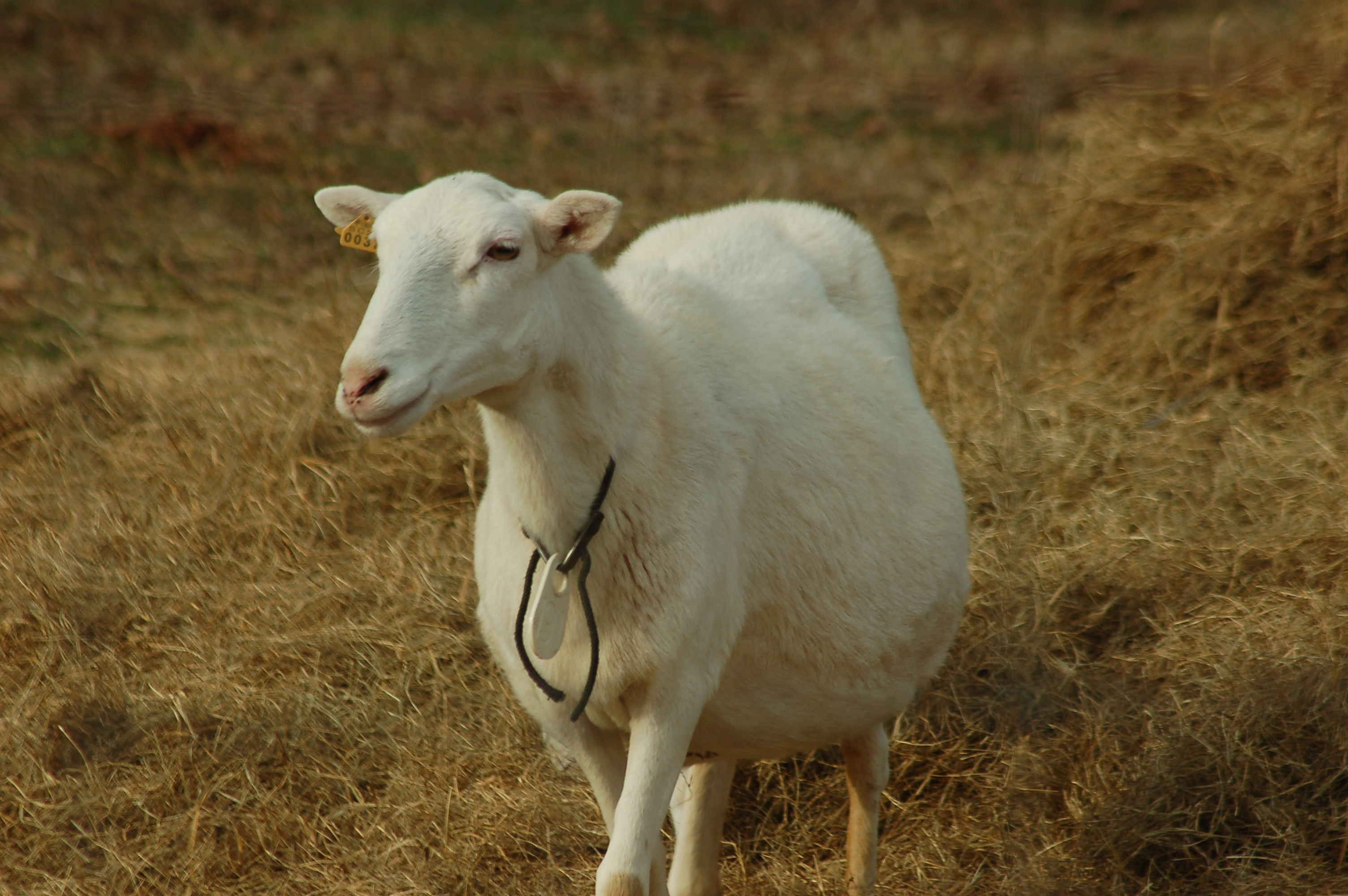 A pregnant St. Croix ewe in South Carolina.